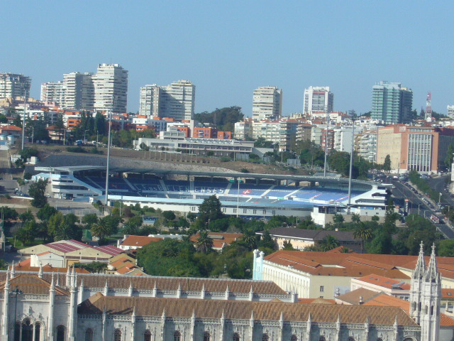 Estádio do Restelo multi-purpose stadium in Lisbon